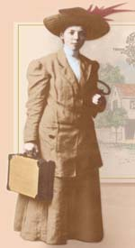 Persis Foster Eames Albee dressed professionally as a saleslady